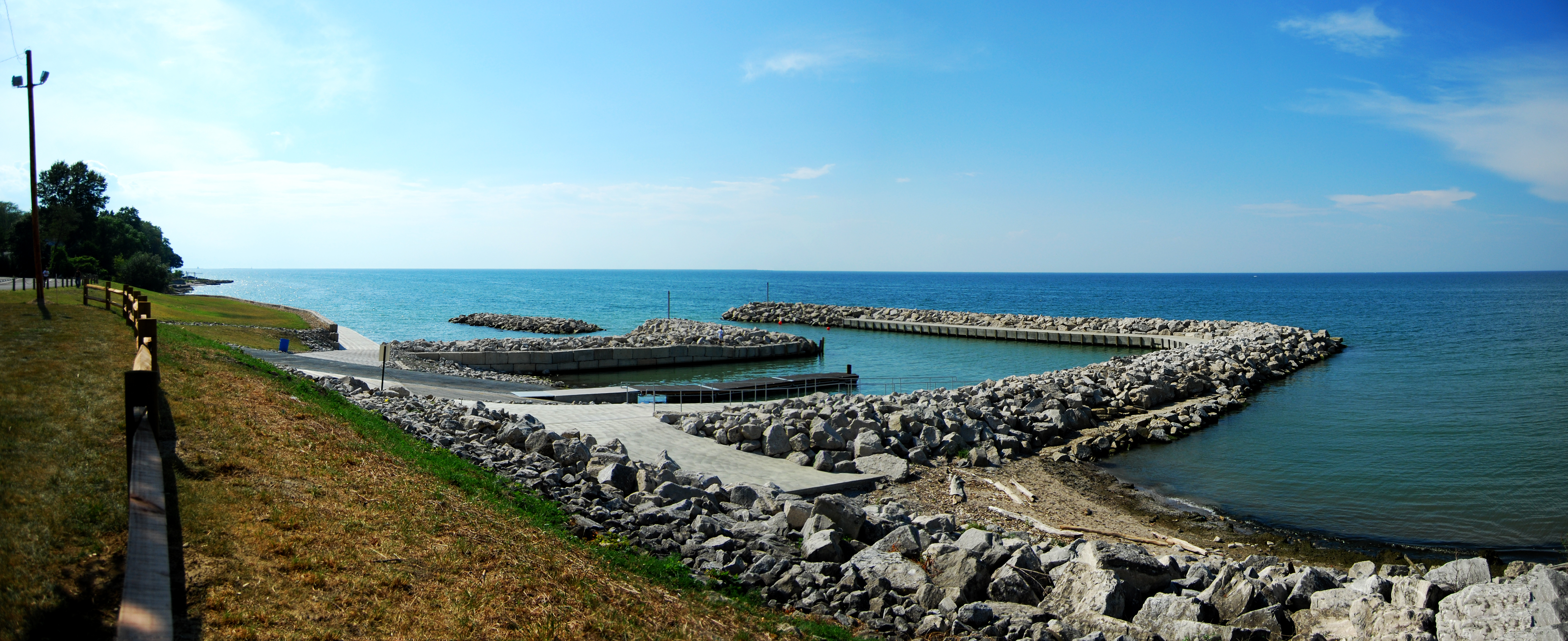 Overview of a small Lake Erie harbor in Sheffield Lake, Ohio, United States.